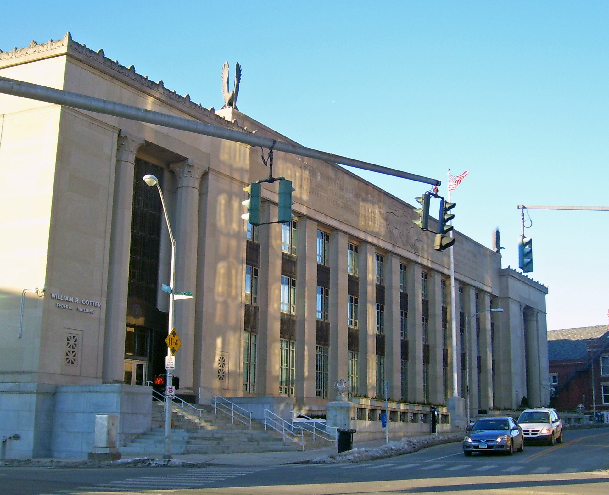 William R. Cotter Federal Building